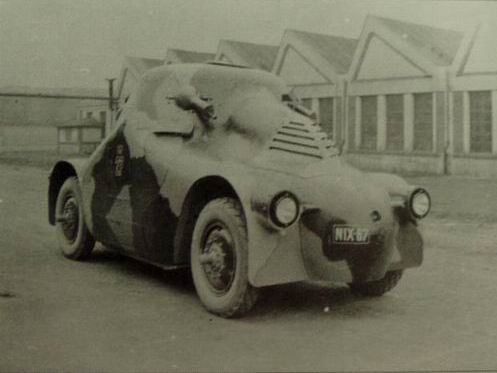 Czechoslovak armored vehicle OA vz. 23